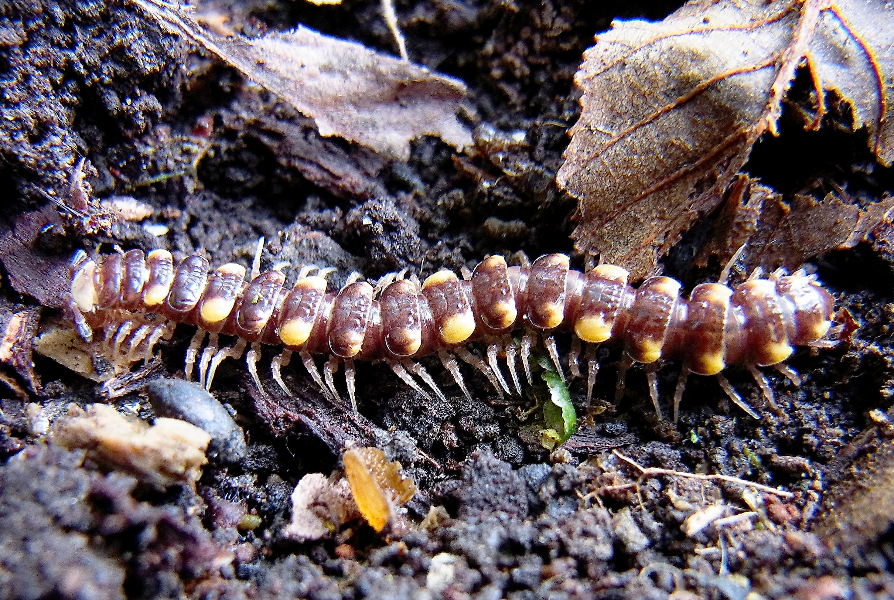 Polydesmus collaris from West-Hungary near Sopron in forest mountains at 2012-04-23